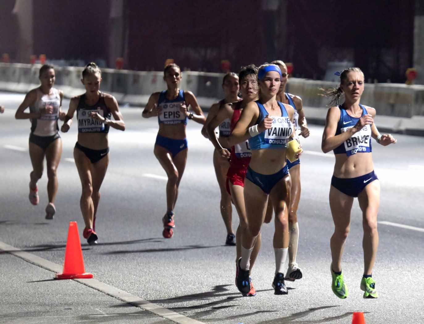 Women's marathon at the 2019 World Athletics Championships in Doha.